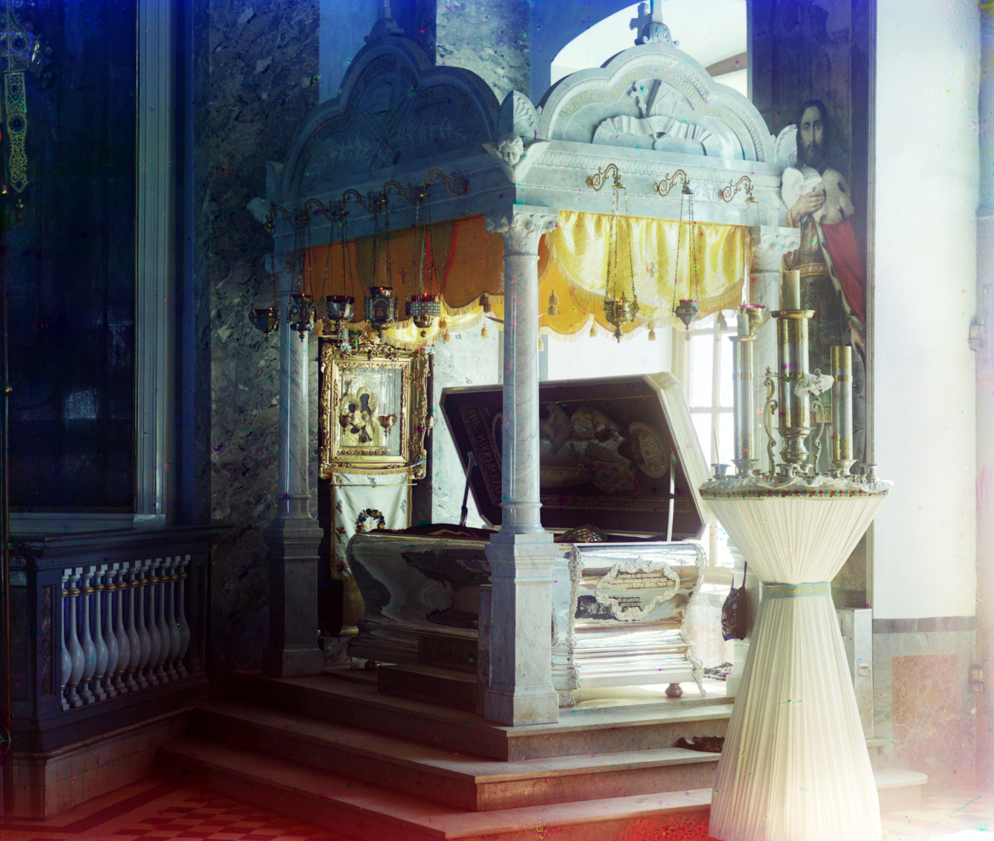 Shrine with relic of St. Dimitry of Rostov in Spaso-Yakovlevsky abbey in Rostov